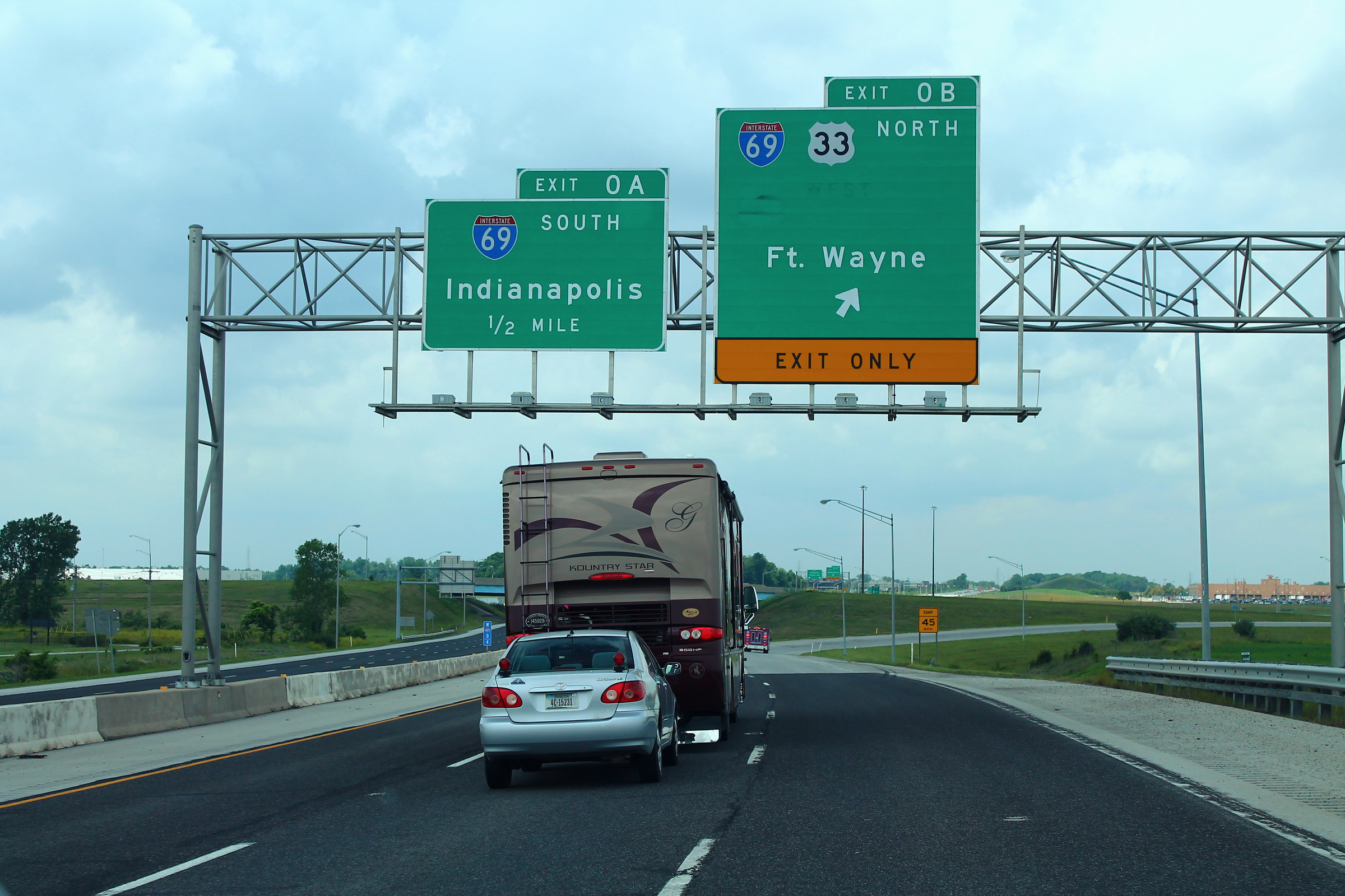 I-469 East - Exit 0AB - I-69 US33 North_